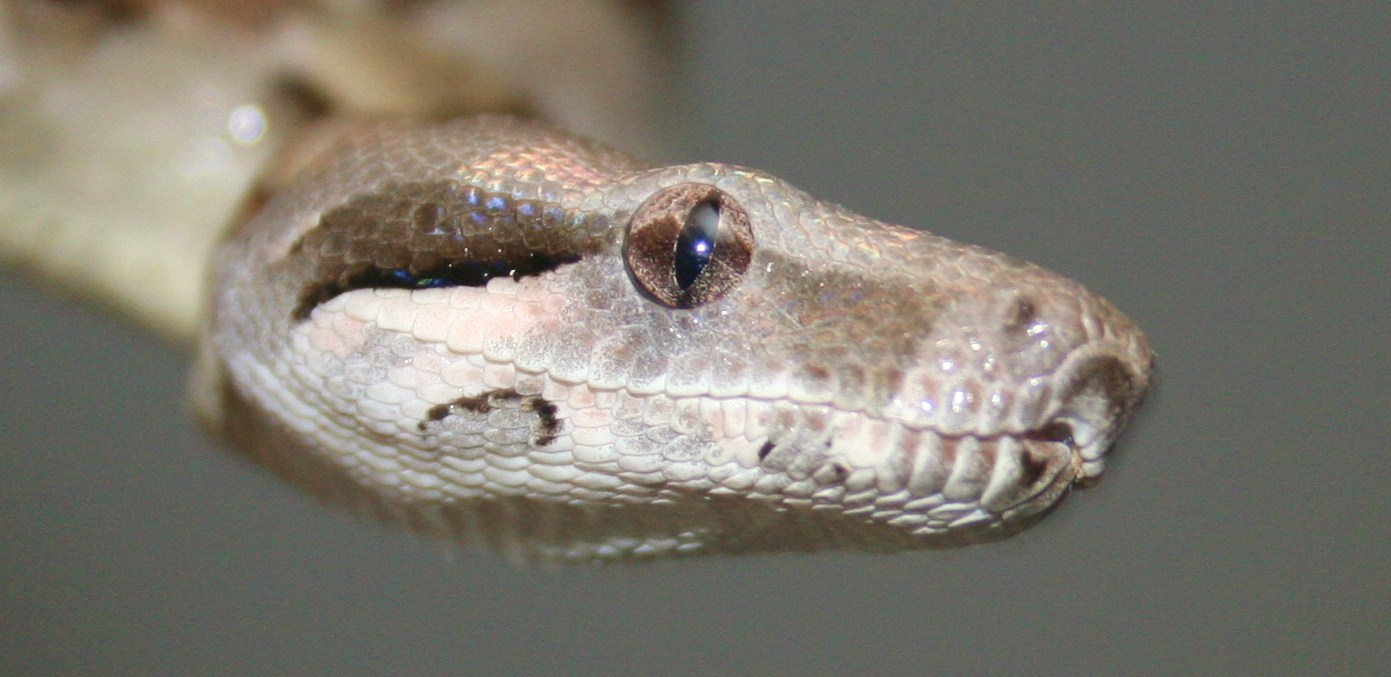 The head of a boa constrictor